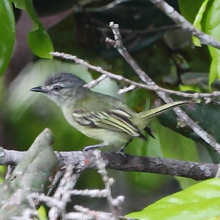 Gray-crowned Flycatcher at Manaus - AM - Brazil